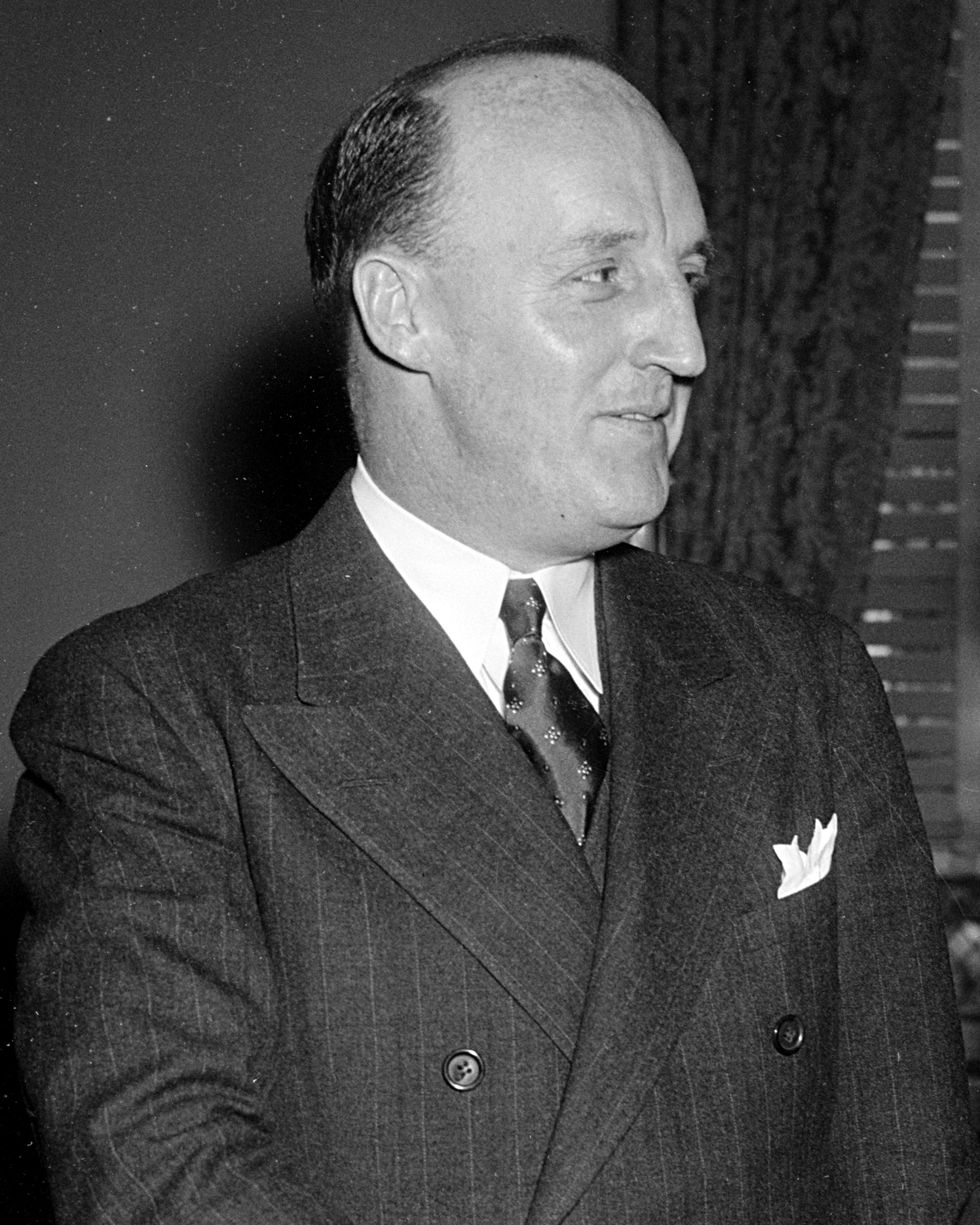 Thomas A. Flaherty, US Representative from Massachusetts